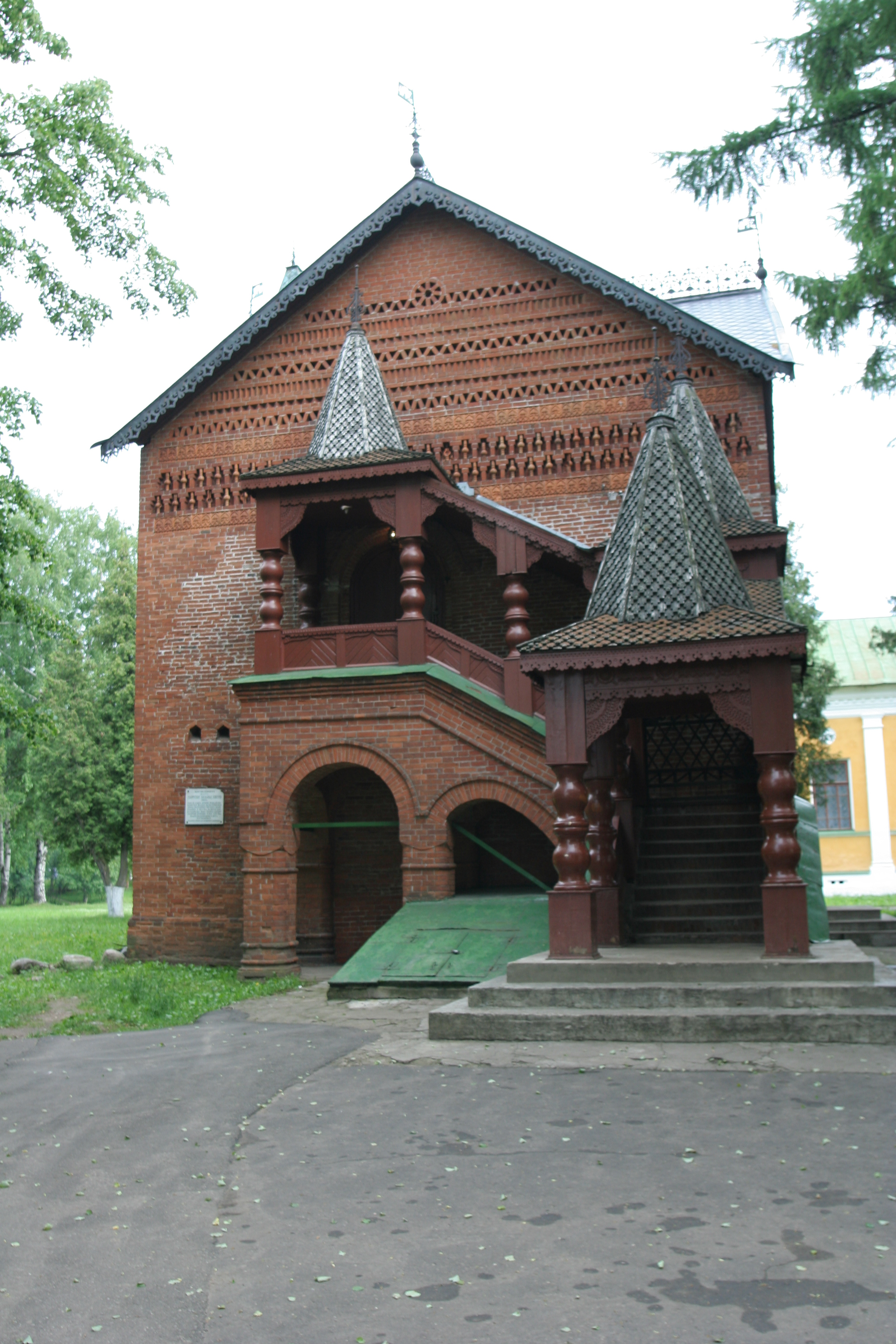 Uglich cathedral The house of Dimitrij in Uglich